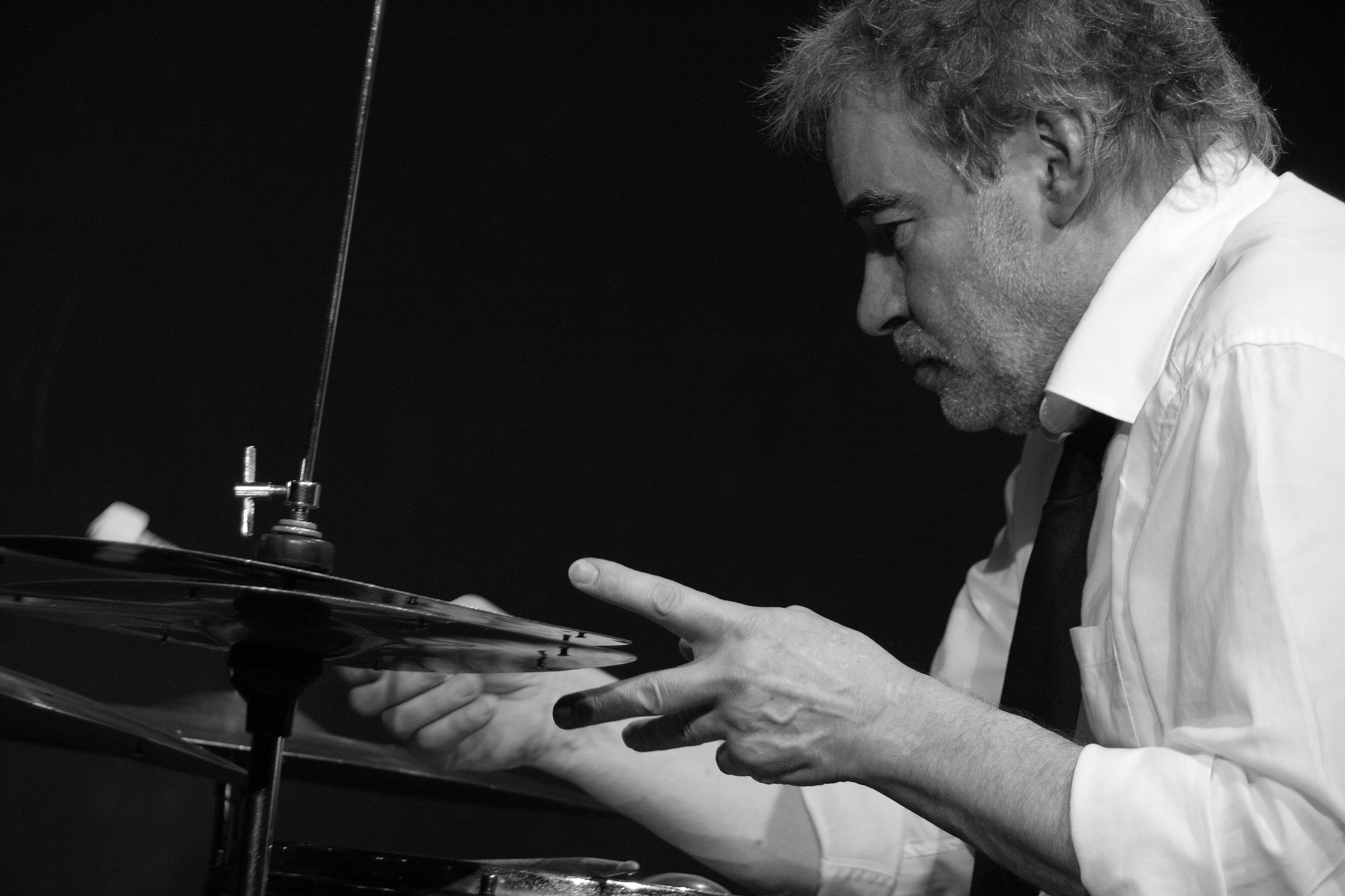 The Schlippenbach Trio with Alexander von Schlippenbach (grand piano), Evan Parker (sax) & Paul Lovens (dr) at KULT, Niederstetten.